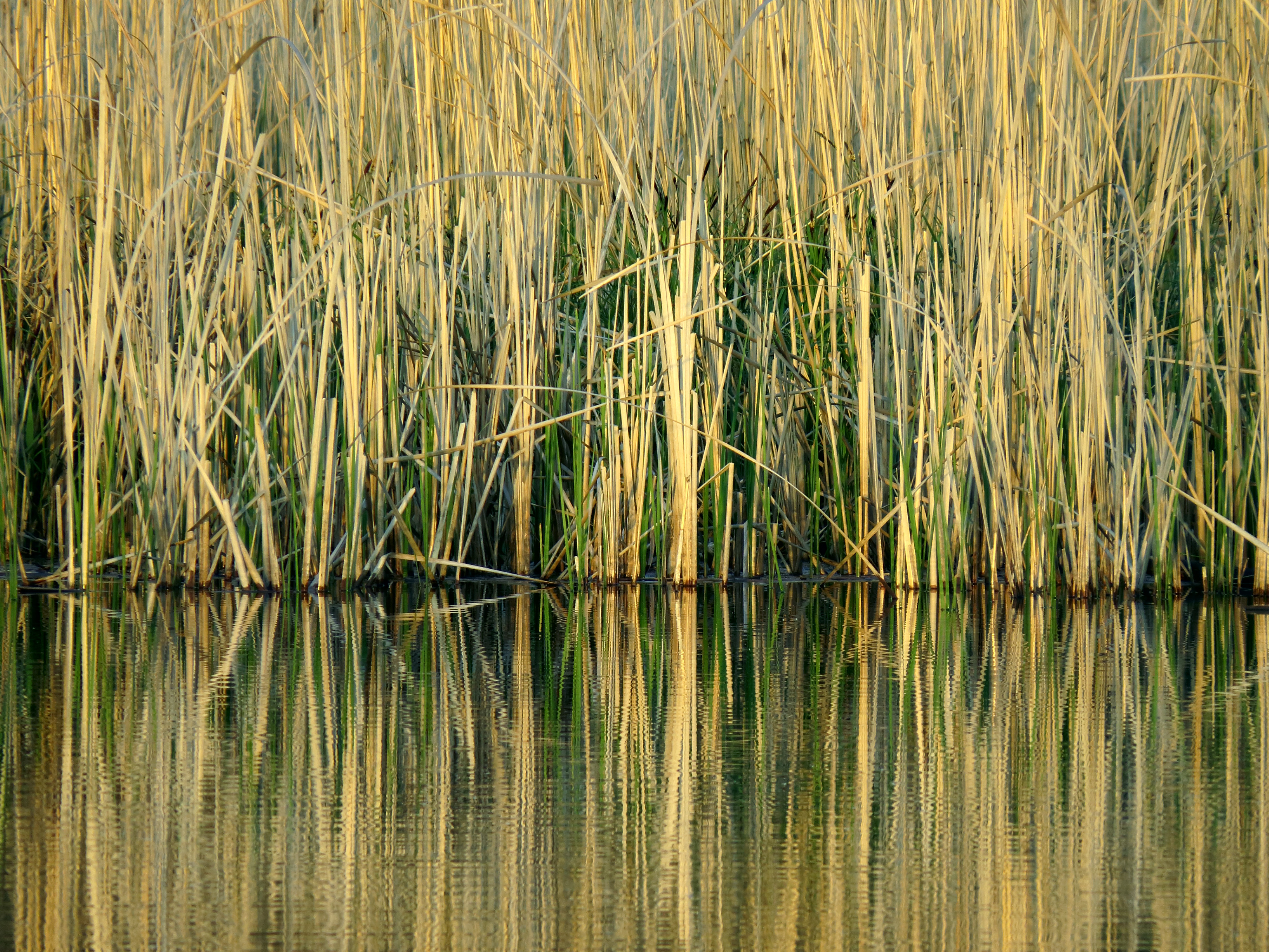 Ukraine, Kiev, Svyatoshyn ponds. Small island of Phragmites australis and Carex acutiformis